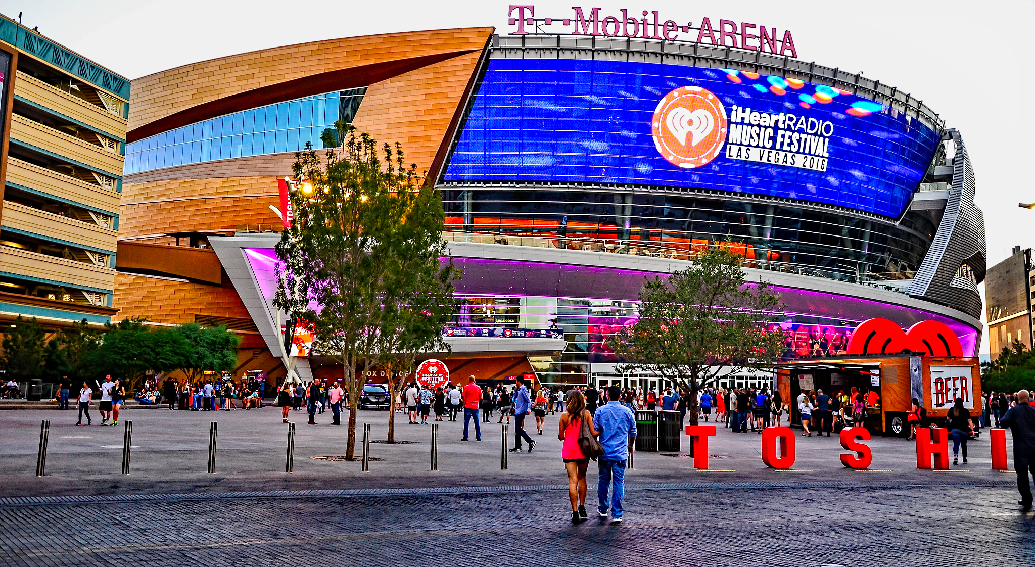 TDelCoro September 24, 2016